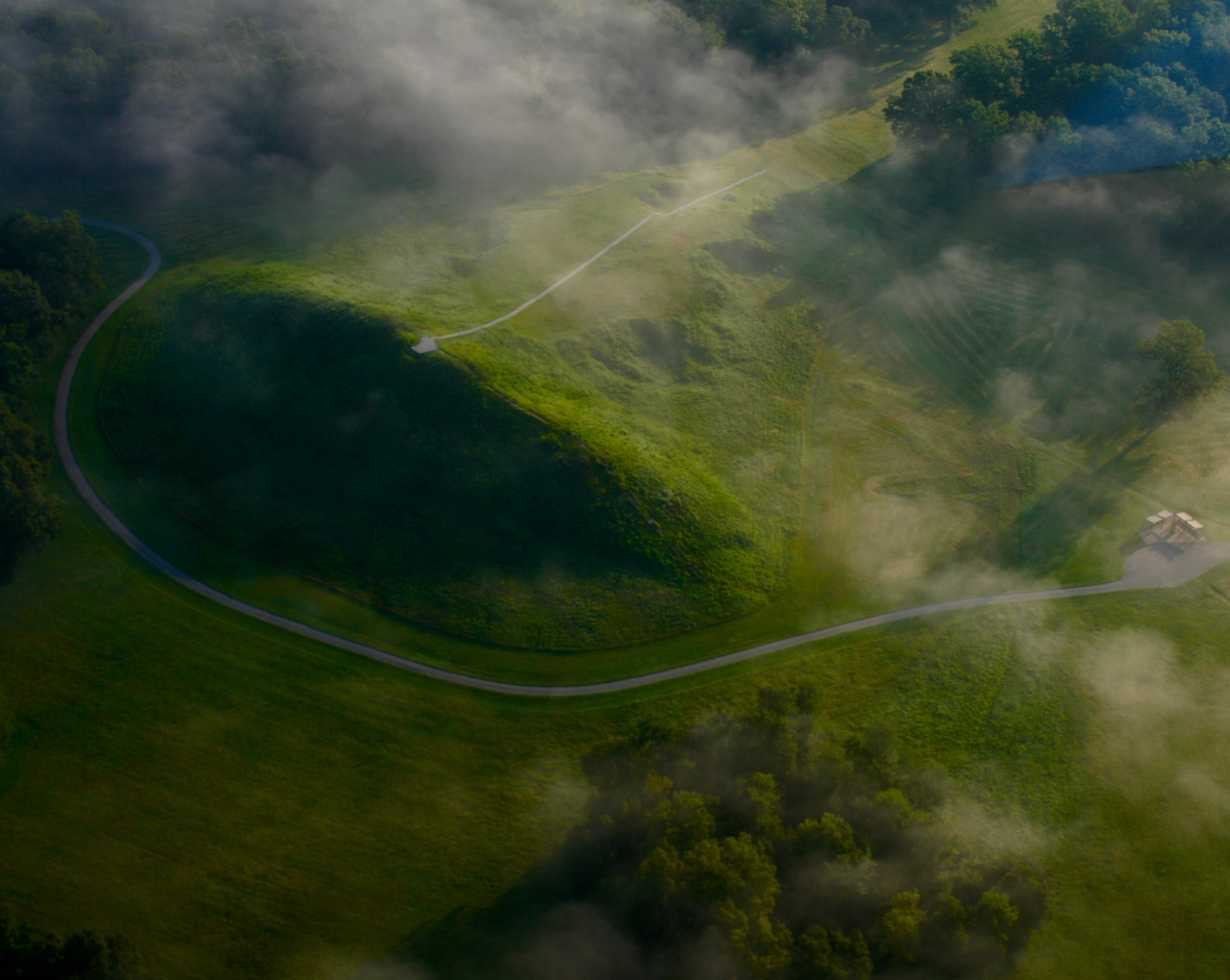 Perhaps you can better make out the bird shaped pattern or as others like to reference it, the T shape. Which is also the most monumental mound on the grounds that encompass Poverty Point World Heritage Site.